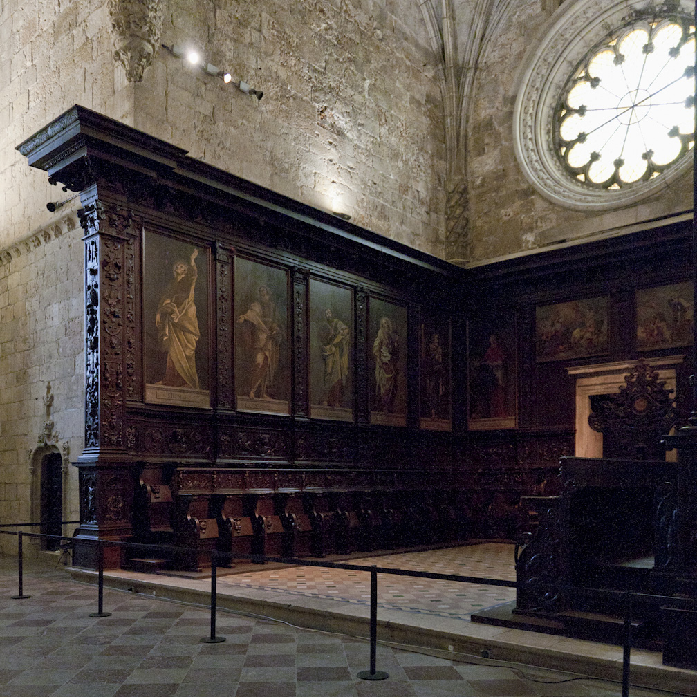 Diogo de Torralva, Cadeiral, coro-alto, do Mosteiro dos Jerónimos